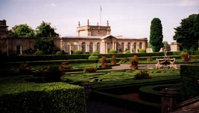 Blenheim Palace, looking across the east facade's Italian garden to the orangery, which both adorns and disguises the walls of the domestic east court. The East gate is seen rising above.